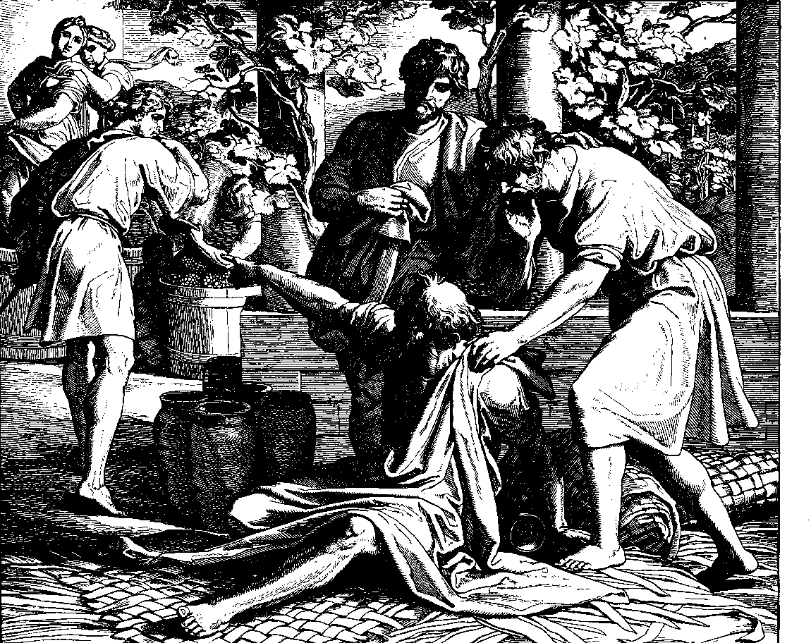 Woodcut for "Die Bibel in Bildern", 1860.